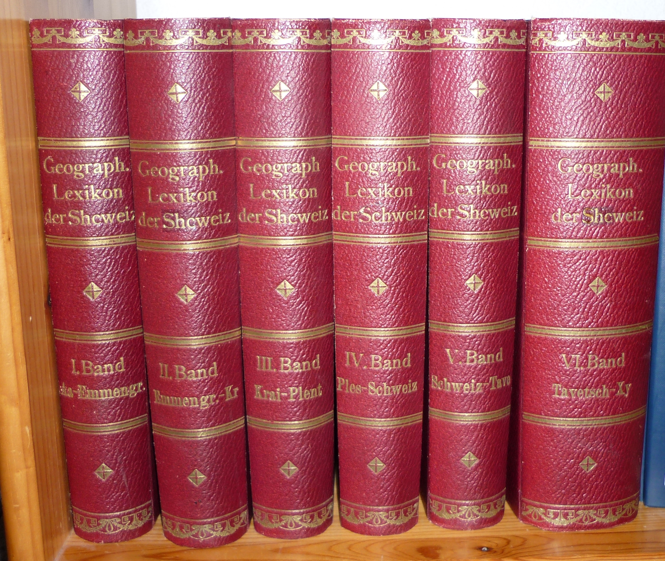 "Geographisches Lexikon der Schweiz" vol. 1-6 (1902-1910).